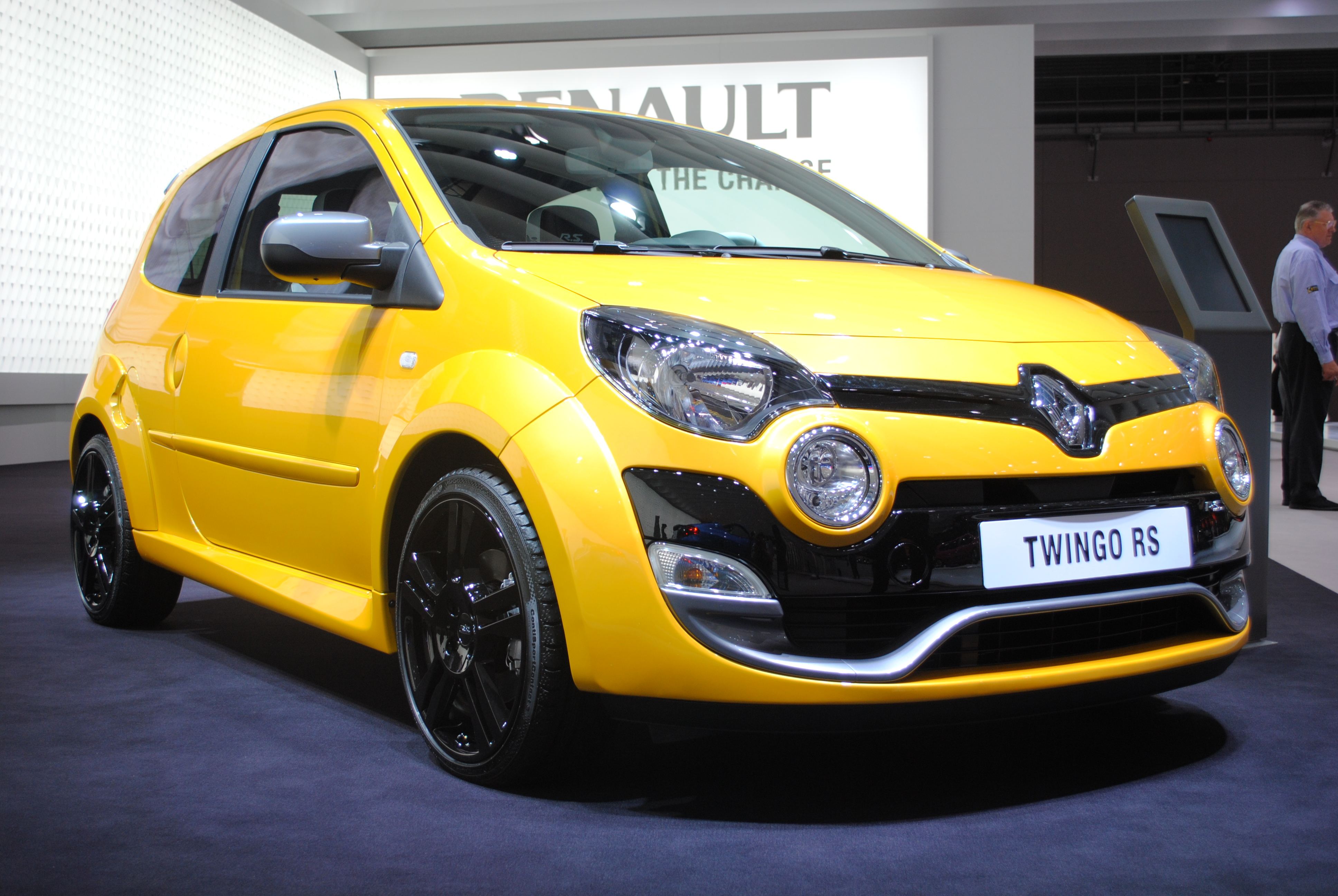 More photos and info